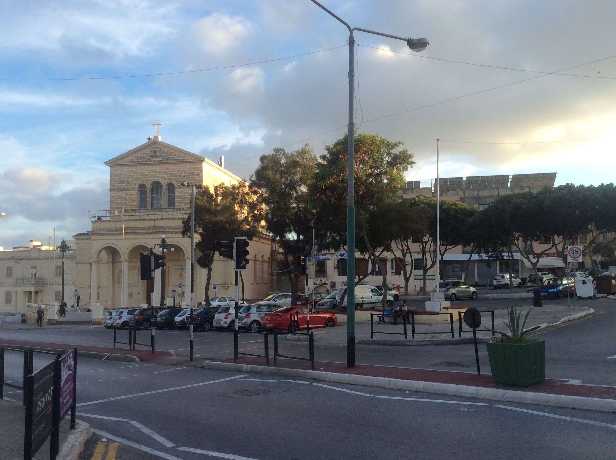 Main open space in San Gwann with Parish Church